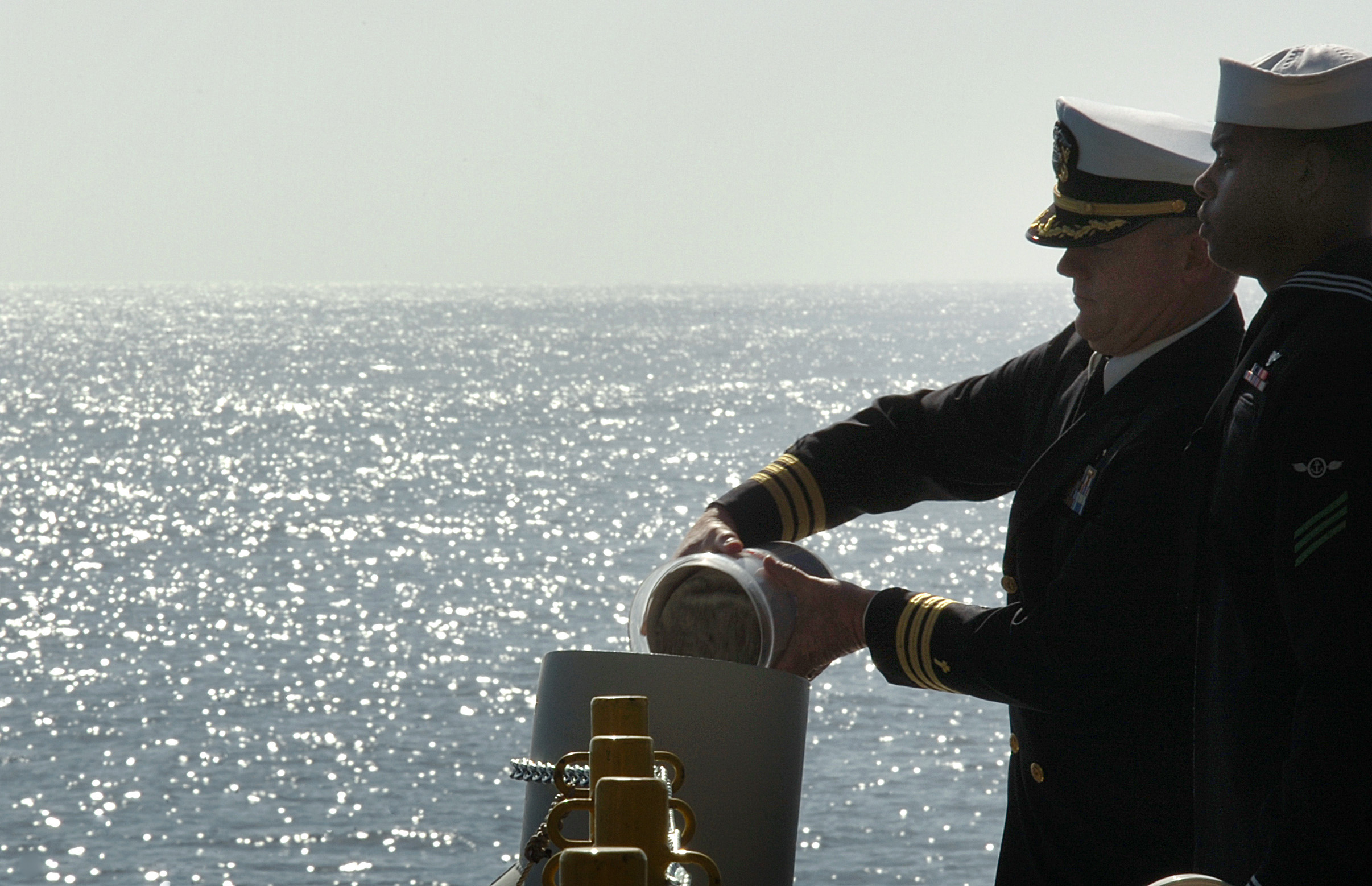 PACIFIC OCEAN (Feb. 11, 2008) Cmdr. Lee Axtell, command chaplain aboard the Nimitz-class aircraft carrier USS Ronald Reagan (CVN 76), releases the ashes of retired U.S. Navy captain and astronaut Walter M. (Wally) Schirra during a burial-at-sea ceremony. Along with Schirra, the remains of eight other military veterans were committed to the sea during the ceremony. Ronald Reagan is conducting routine carrier operations. U.S. Navy photo by Mass Communication Specialist 2nd class Joseph M. Buliavac (Released